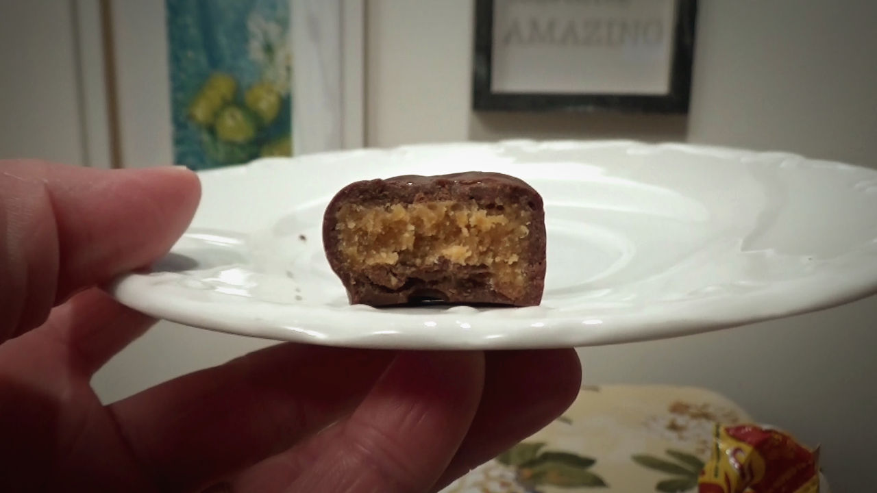 This is the inside of a Ganong Pal-O-Mine bar on a saucer.